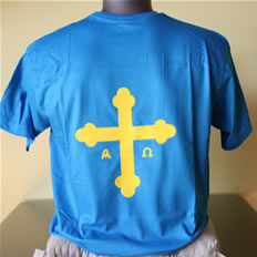 Camiseta con la Cruz de Asturias, símbolo de nuestra región y de los seguidores de Fernando Alonso, la llamada Marea Azul.